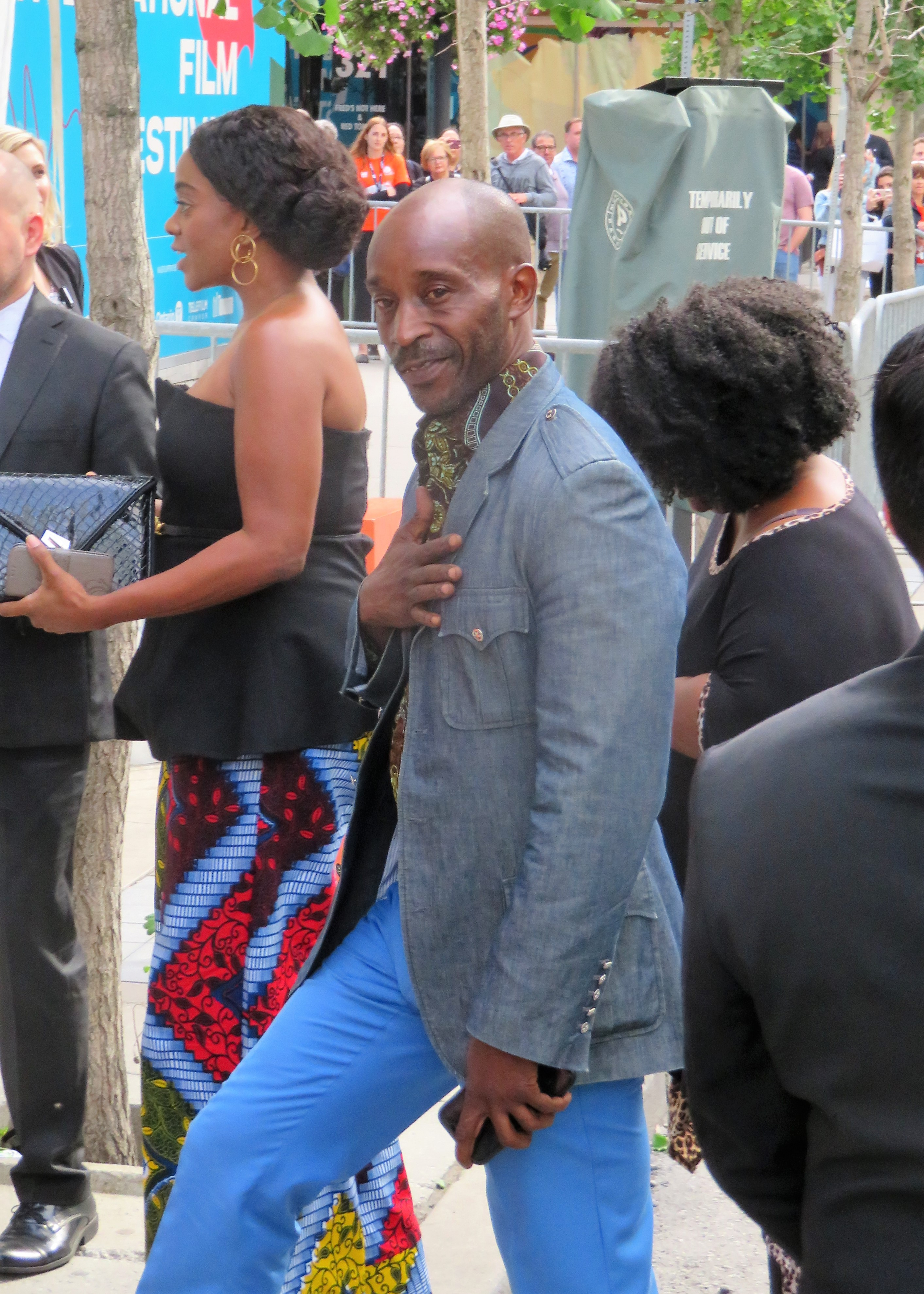 Rob Morgan at the press conference of Just Mercy, 2019 Toronto Film Festival